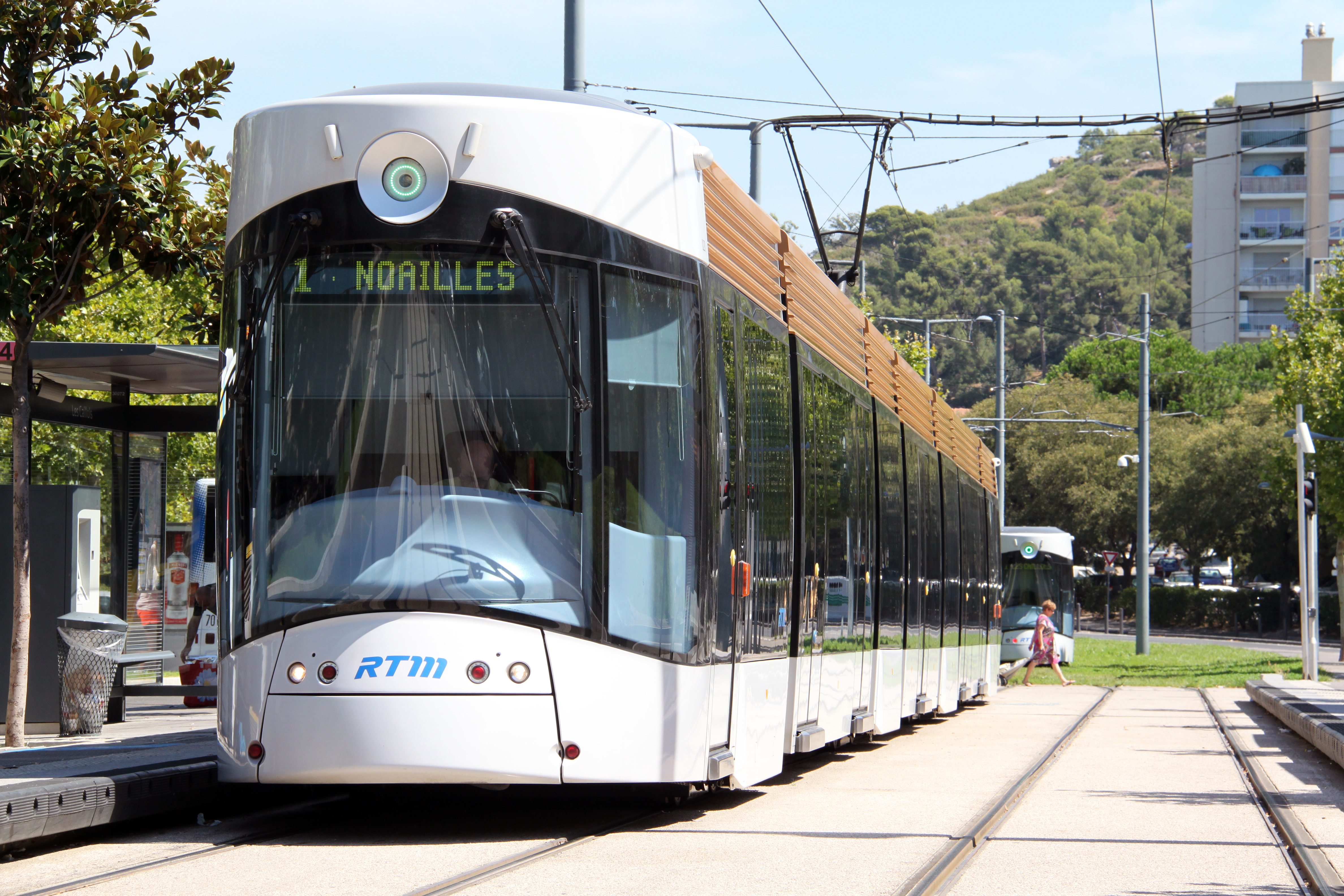 A Bombardier Flexity Outlook at the T1 terminus at Les Caillols in Marseille.